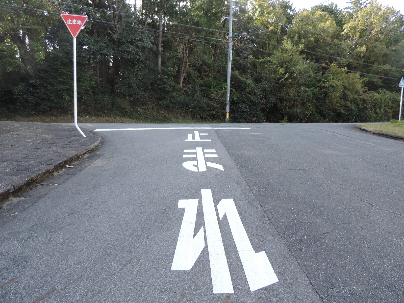 Japanese "STOP" pavement markings (center characters) and road sign (left pole). "止まれ" is "STOP" in Japanese.